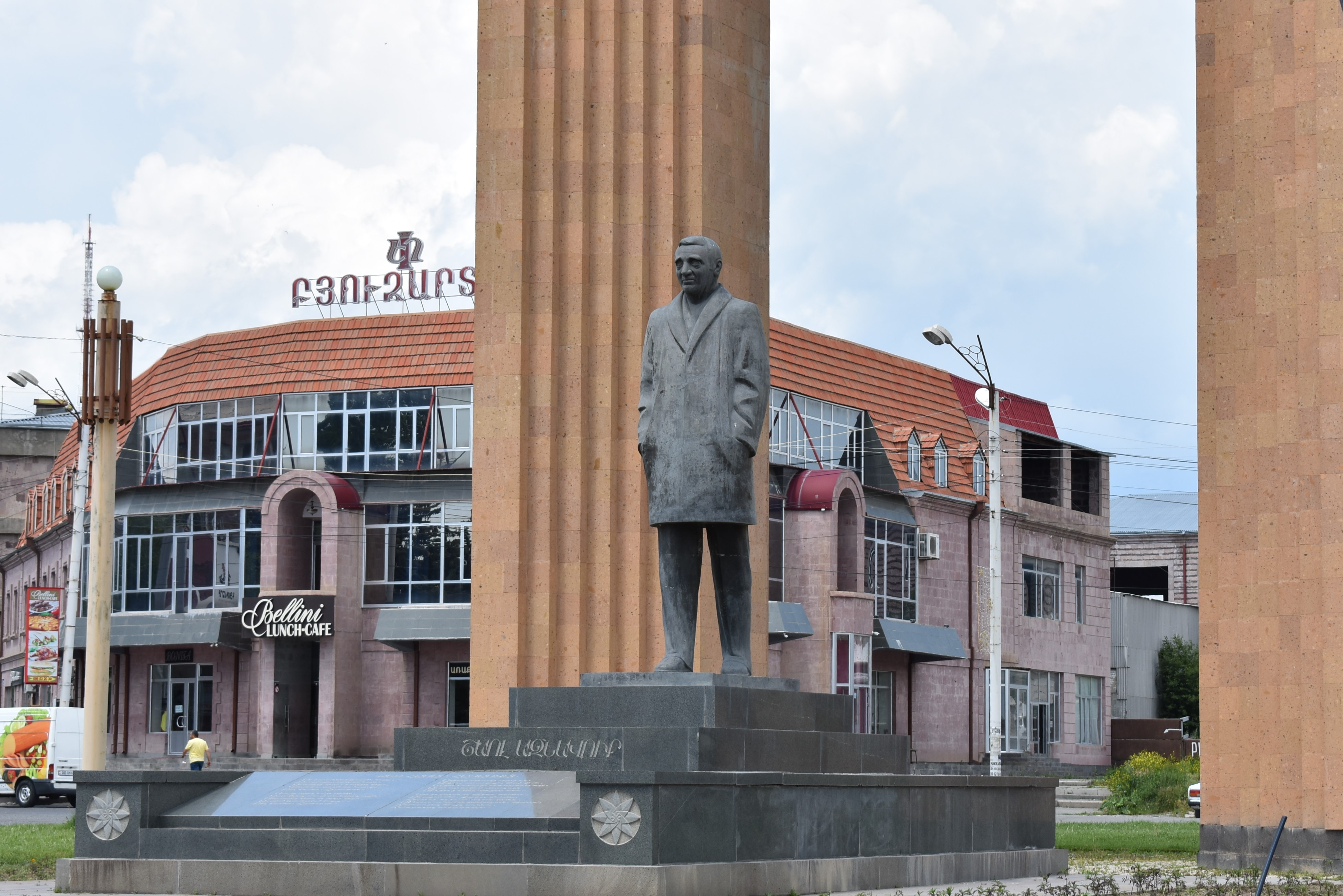 Charles Aznavour